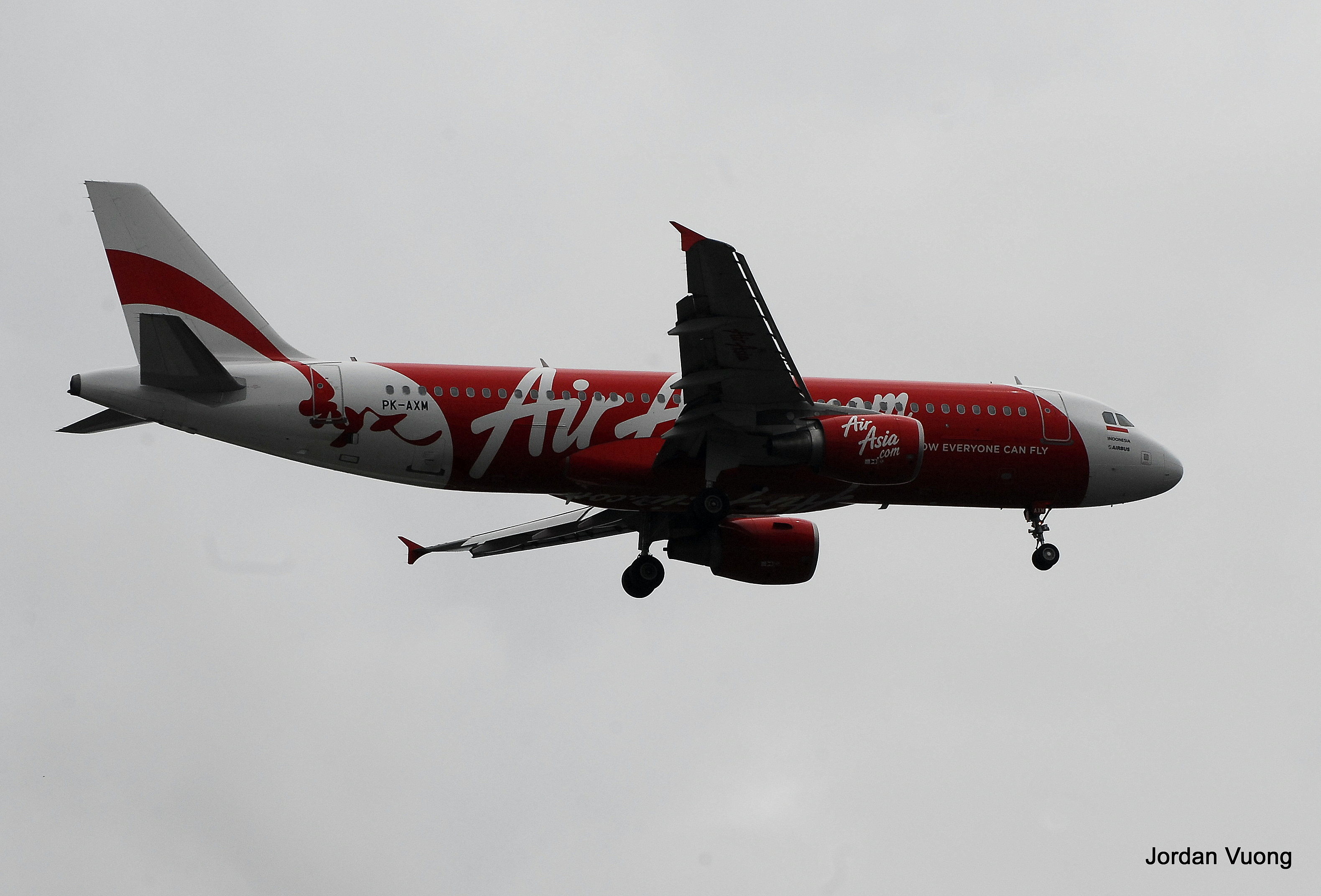 Indonesia AirAsia Airbus a320 on approach to Perth Airport.